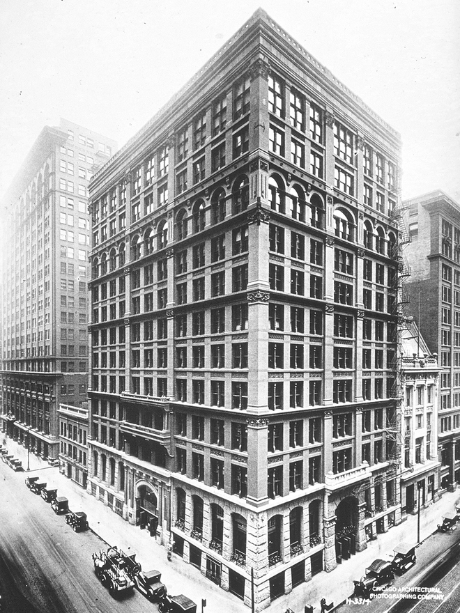 Exterior of the Home Insurance Building by architect William Le Baron Jenney in Chicago, Illinois.